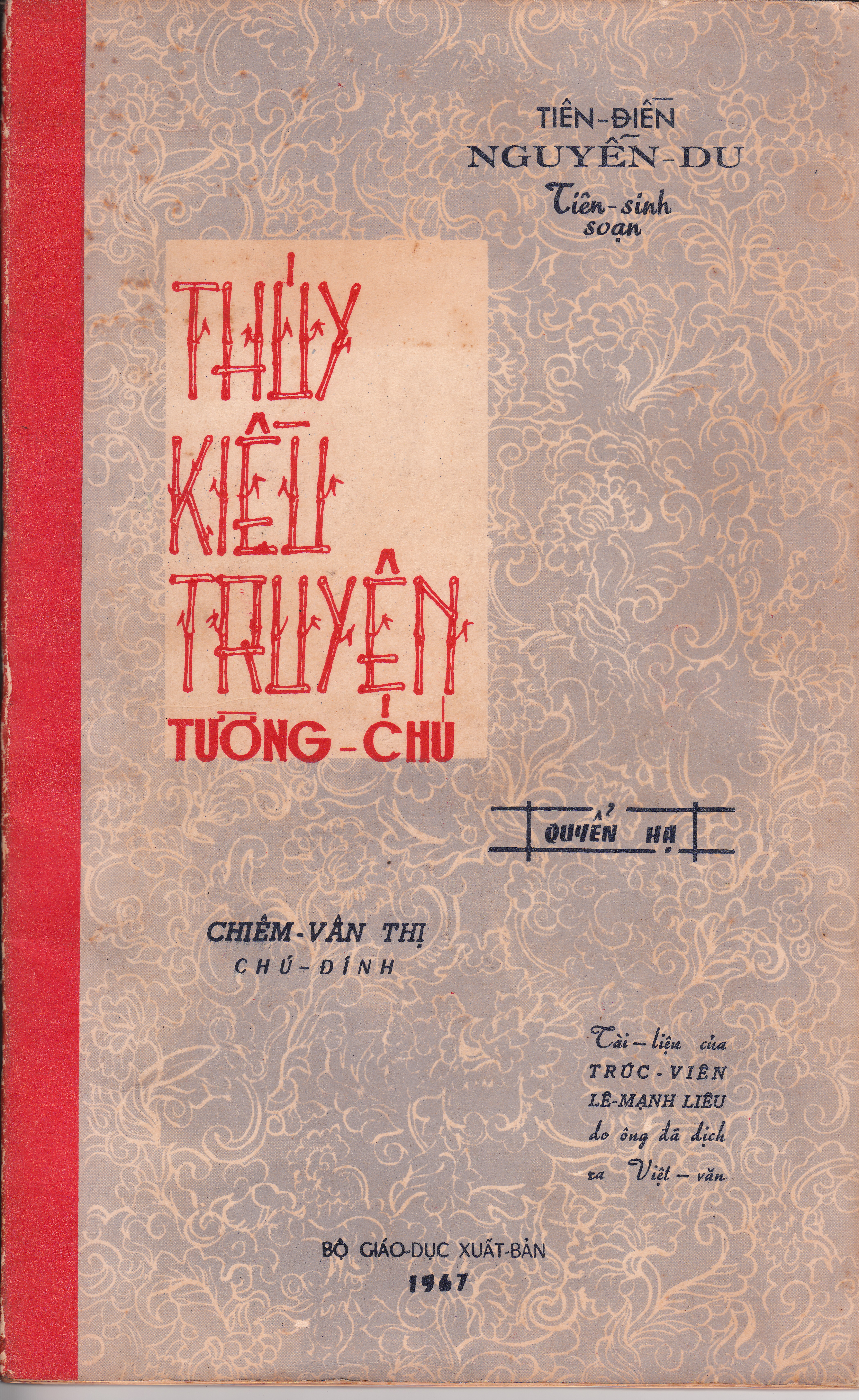 Vietnamese novel-in-verse from the 1800s written in Nôm script